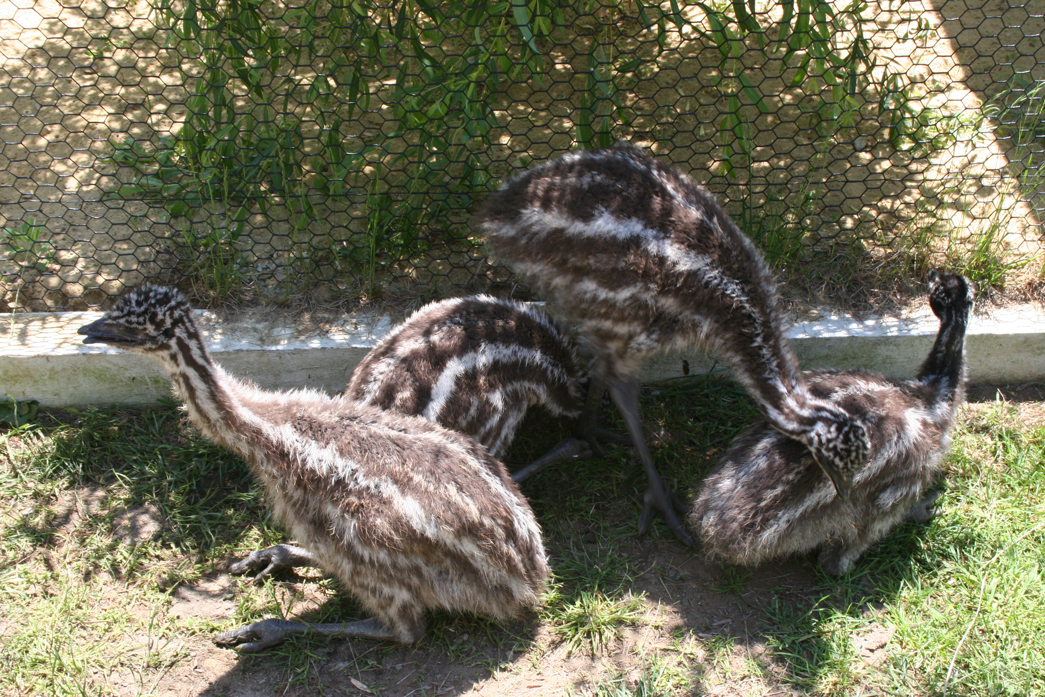 Four Emu chicks at York's Wild Kingdom, New England, USA.